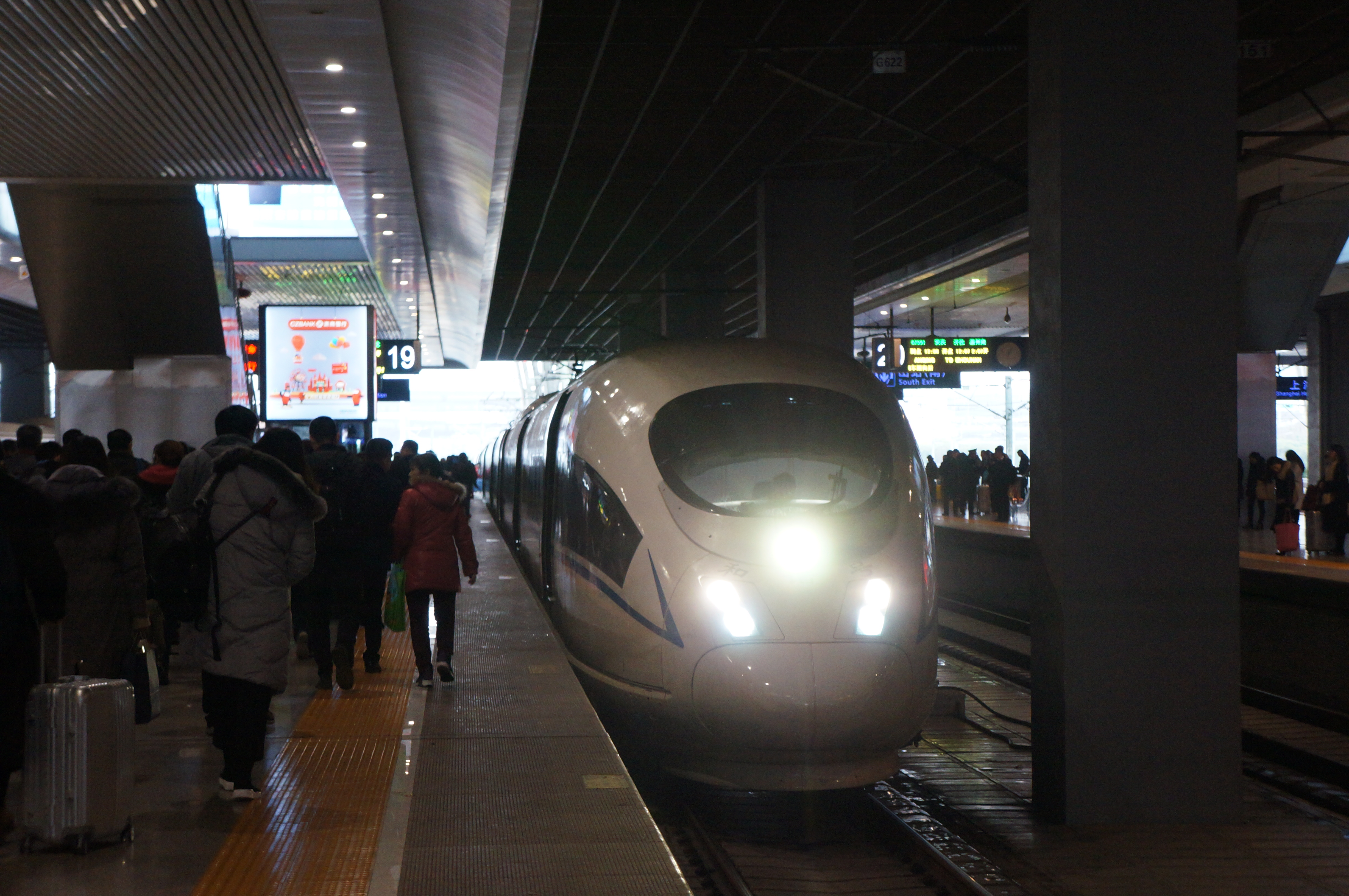 201801 G1924 waits for departure at Shanghai Hongqiao Station. Scheduled departure time 1145, planned departure time 1210, actual departure time 1224.